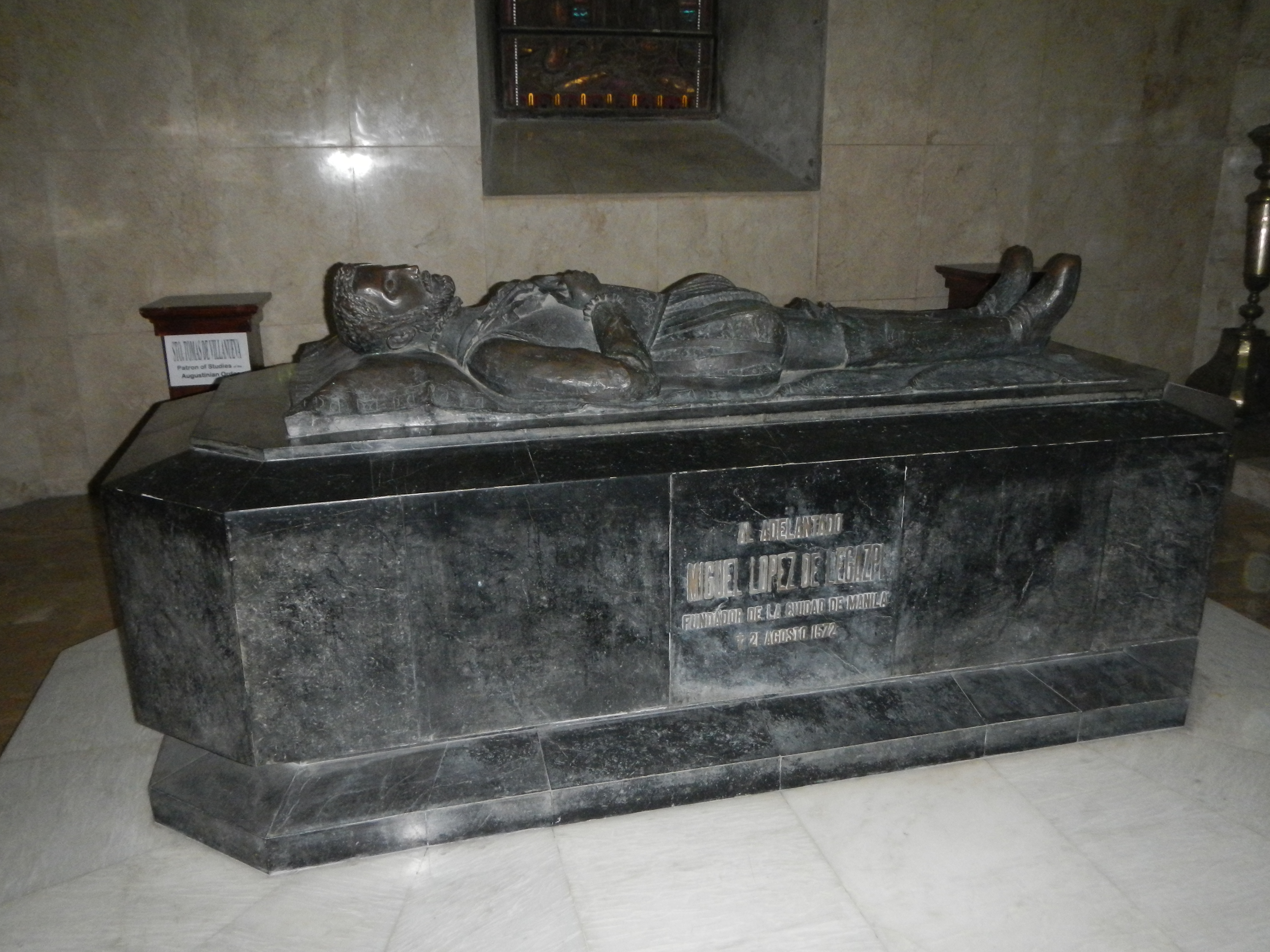 Tomb of Miguel López de Legazpi [1] in San Agustin Church, Manila - (Shrine of Nuestra Señora de Consolacion y Correa - Nuestra Señora, Madre de la Consolación) [2] - [3] (General Luna Street, Intramuros, Manila) a Roman Catholic church under Roman Catholic Archdiocese of Manila,[4] and the auspices of The Order of St. Augustine[5], located inside the historic walled city of Intramuros[6] in Manila. Originally known as "inglesia de San Pablo", founded in 1571, it is the oldest stone church (built in 1589) in the Philippines. In 1993, San Agustin Church was one of 4 Philippine churches constructed during the Spanish colonial period designated as a World Heritage Site by UNESCO, under the collective title Baroque Churches of the Philippine.[7][8] It was named a National Historical Landmark by the Philippine government in 1976.[9] Website [10] San Agustin Museum: Repository of enduring friendship July 25, 2004 [11] San Agustin International Music Festival [12] r. Pedro G. Galende was the director of San Agustin Museum in Intramuros, Manila, suceeded by incumbent Director and Curator, Fr. Asis Bajao, OSA.[13] --- Miguel López de Legazpi [14] Miguel López de Legazpi[1] (c. 1502 – August 20, 1572), also known as El Adelantado and El Viejo (The Elder), was a Basque Spanish navigator and governor who established the first Spanish settlement in the East Indies when his expedition crossed the Pacific Ocean from the Viceroyalty of New Spain in modern-day Mexico, and founded Cebu on the Philippine Islands in 1565.(Note: I decided to re-take and/or re-photograph the altar and important parts of this No. 1 Church in the Philippines, due to open lights that I was opportunely bestowed; before, it was poorly lit.)